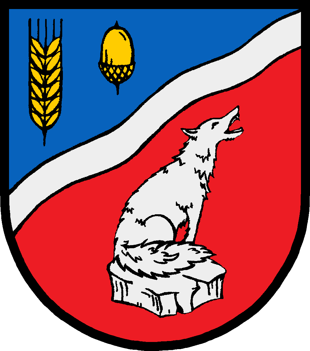 Coat of arms of the municipality Kummerfeld in Schleswig-Holstein, Germany.